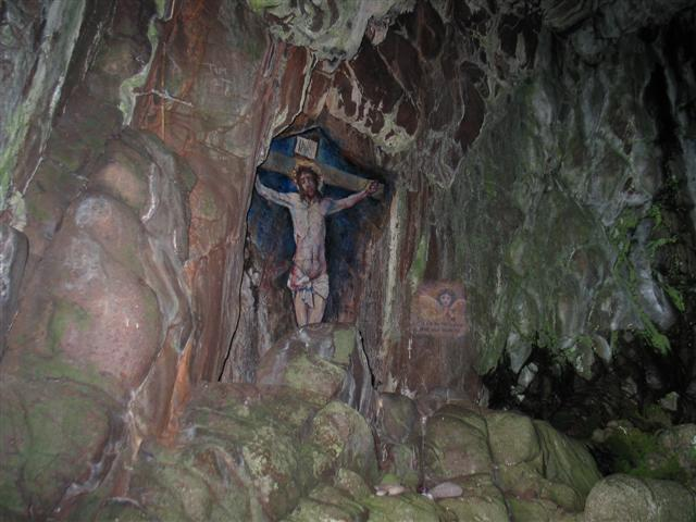 Davaar Island cave painting of Christ.